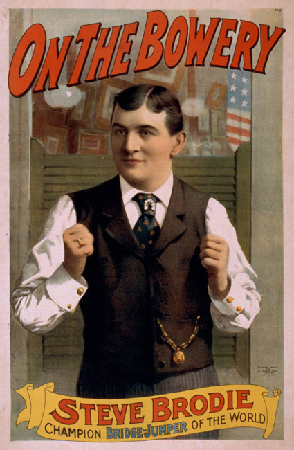 Steve Brodie Library of Congress shows No known restrictions on publication. Published date 1896 Meet pre-1923 publication requirements Created and "copyright 1896 by The Strobridge Lith Co, Cinti & N.Y."